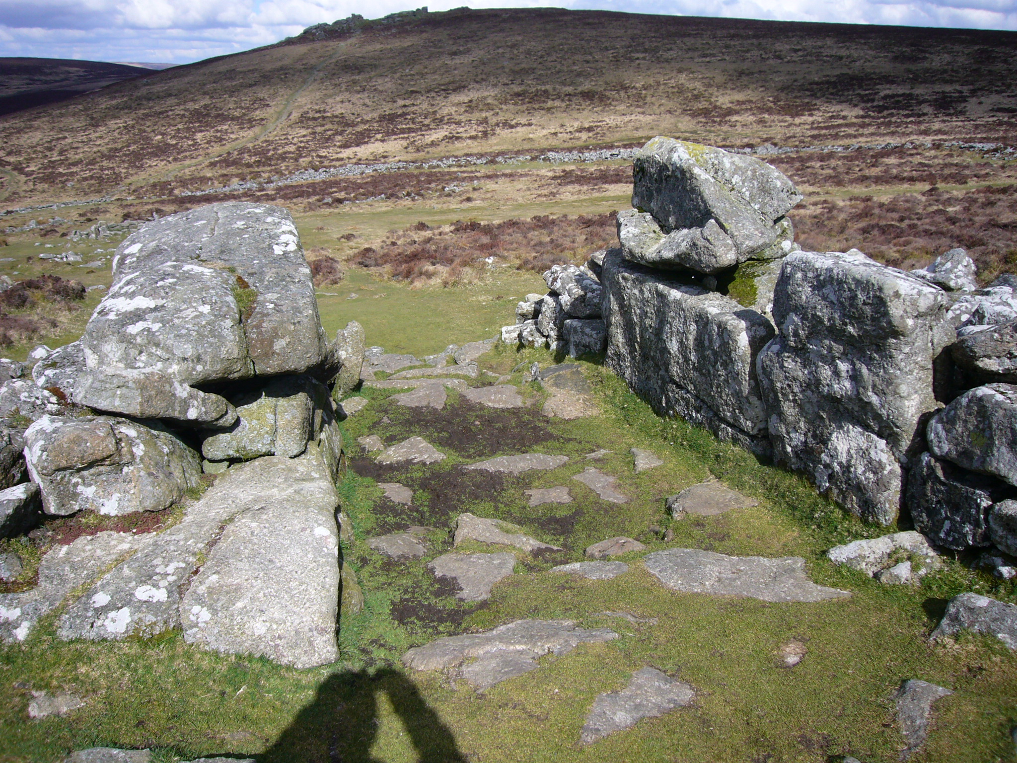 Entrance to Grimspound (a late Bronze Age settlement) on Dartmoor.